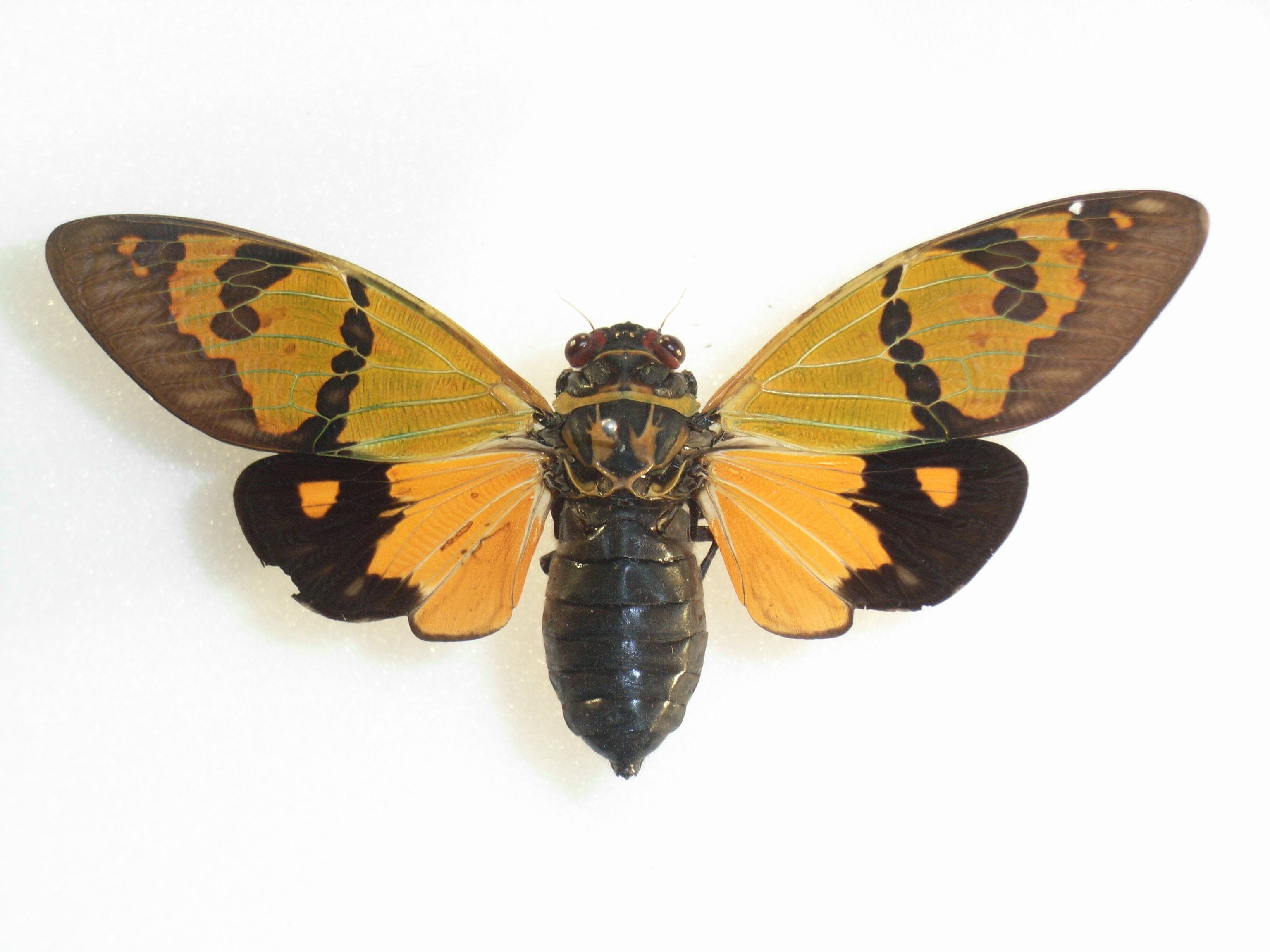 Gaena festiva forma Ex coll. Felix Stumpe